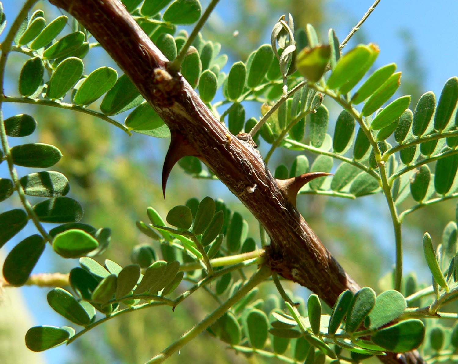 Photo of Acacia greggii thorns at the Springs Preserve garden in Las Vegas